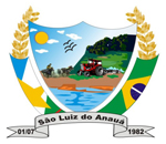 Coat of arm of the city of São Luiz, Roraraima, Brazil.